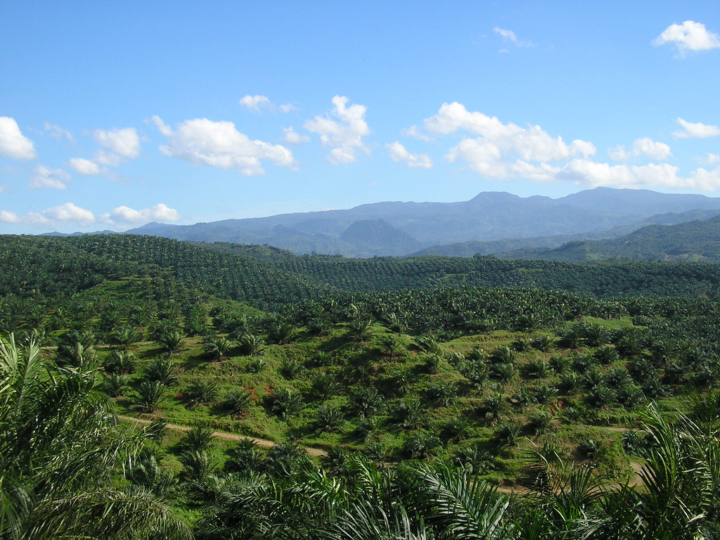 View of palm oil plantation in Cigudeg, Bogor